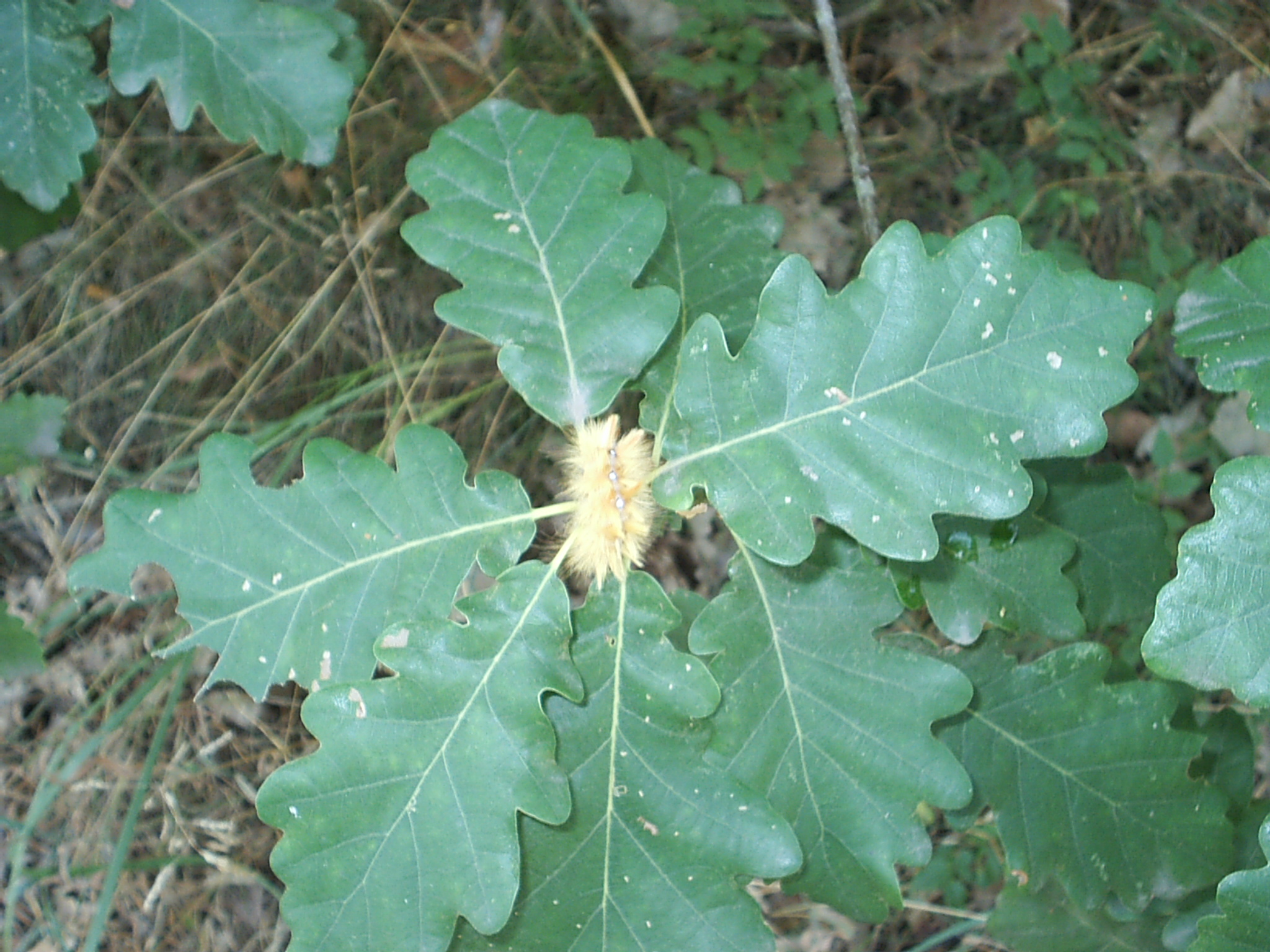 Caterpillar of Sycamore (moth) (Acronicta aceris) on a leaf of oak in the near of the village Thomsdorf, Brandenburg/Germany